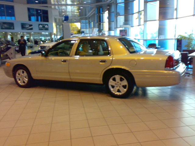 2008 Long wheel base Crown Victoria